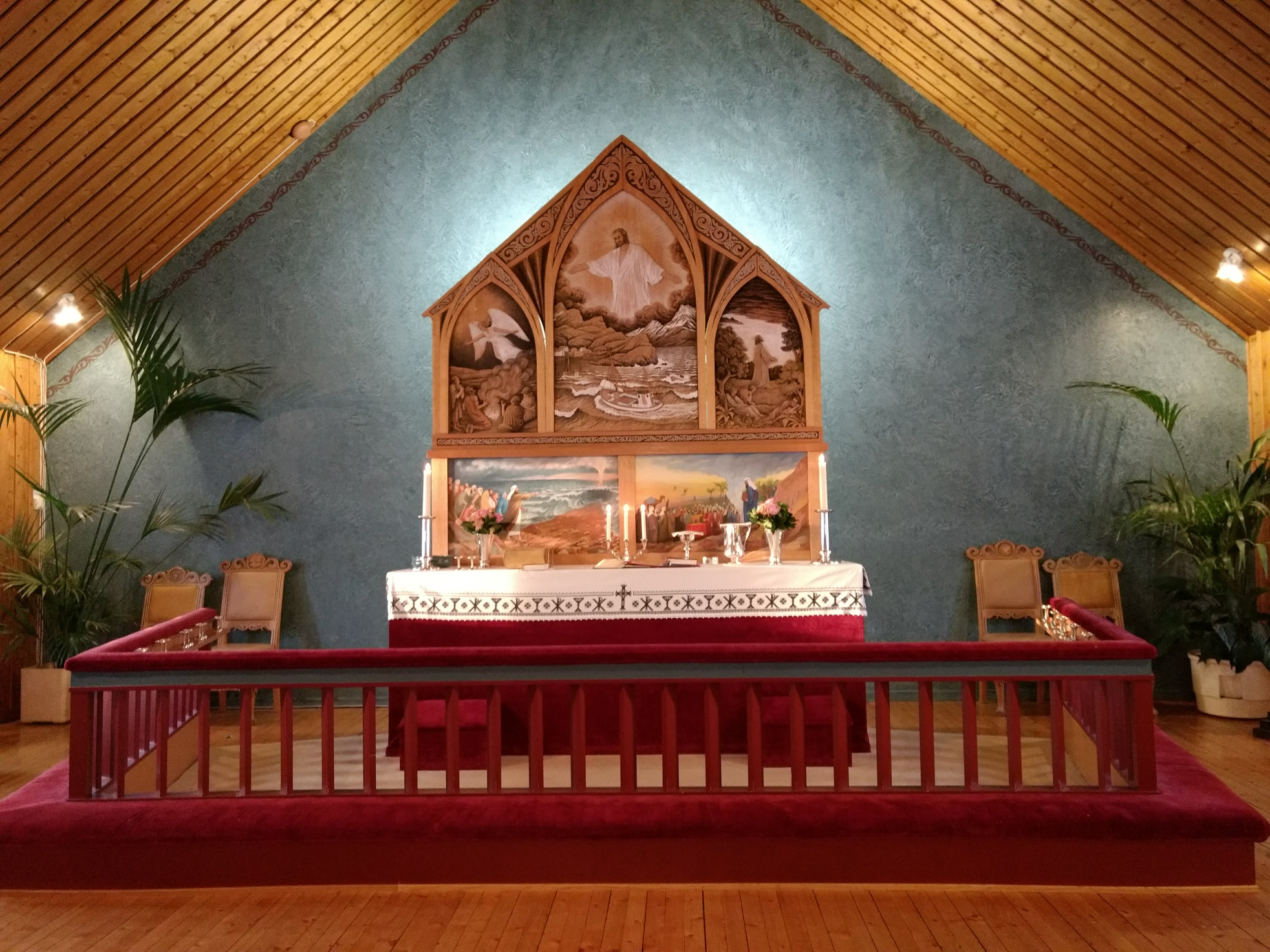 Altar area in Kvaløy church, Kvaløy, Tromsø, Norway